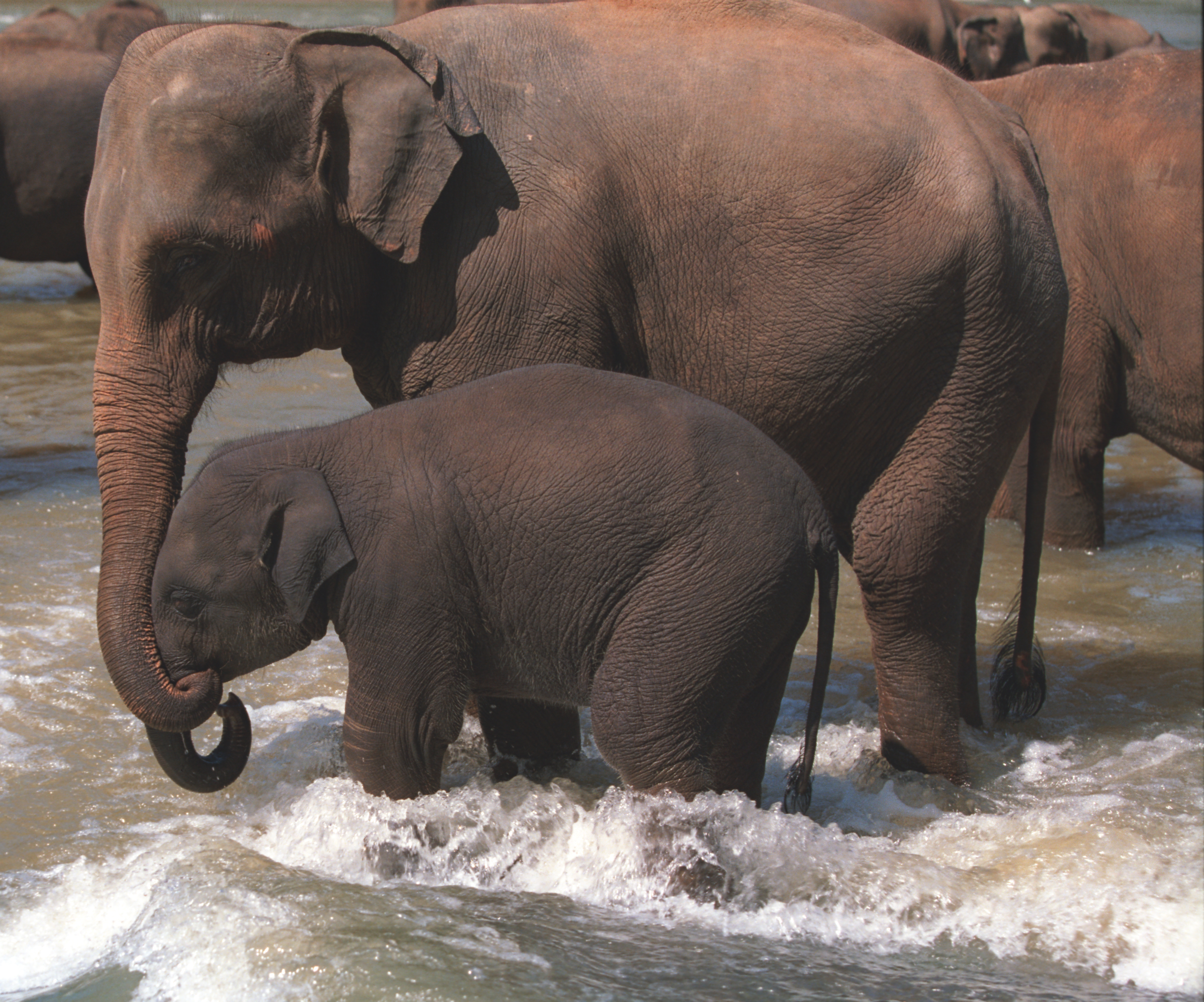 Pinnawala Elephant Orphanage, Sri Lanka